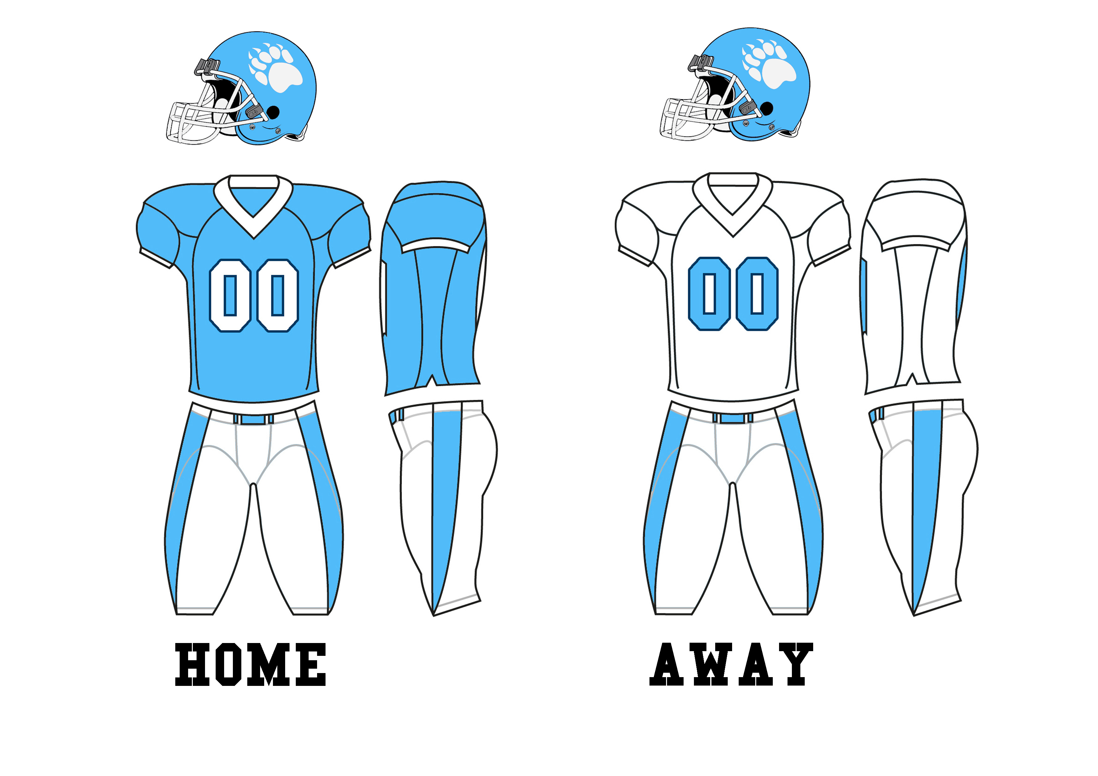 Bears Game Uniforms